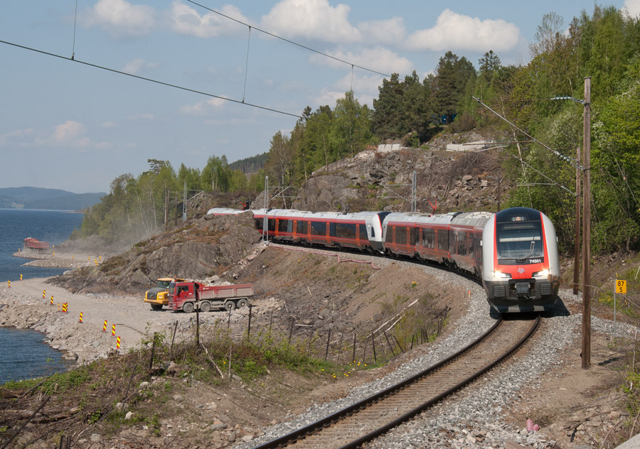 Norwegian iron trains in 2012 consisting of two train sets type 74. By Strandlykkja along the lake Mjøsa.